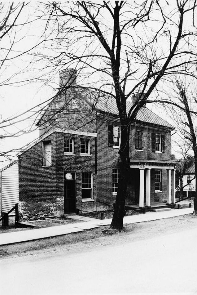 Exterior view of the William and Sarah Nettle House (also known as the Clockmaker's House and Shop), Second Street, between Patrick and Church Streets, Waterford, Loudoun County, Virginia.